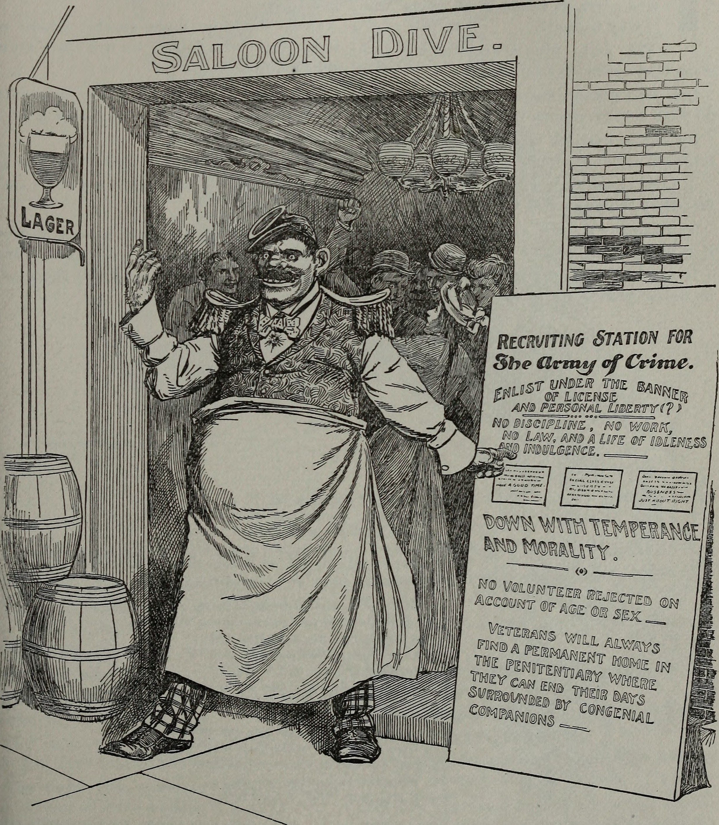 Title: "Blasts" from The Ram's Horn Year: 1902 (1900s) Authors: Subjects: Poetry Publisher: Chicago, The Ram's Horn Co. Text Appearing Before Image: Blasts From The Rams Horn. 217 Text Appearing After Image: THE RECRUITING SERGEANT FOR THE ARMY OF CRIME* 218 Blasts From The Rams HornTHE BOOK OF YOUR LIFE. TROUBLES open doors for God tocome in.God gives us needs to show us theway himself.The more others are untrue, themore God needs loyalty in us. Life will depend largely upon what wedo with leisure moments. By seeing- how we treat men, angels cantell how much we love God A good man is a living witness to thefact that the devil is a liar. The Lord is not on anybodys side, butit is our privilege to be on his. If we love God, the world expects us tobe doing something to show it. Some men are counting upon getting toheaven because they have never been injail. If we would be more careful where westep, those who follow us wouldnt stum-ble so much. Life in this world will never be rightlyunderstood until we come to look at itfrom the next. If God puts the lions den in front of us,we will miss a great deal if we dont walkstraight up to it. Dont conclude that you have said good-by to the devil bec